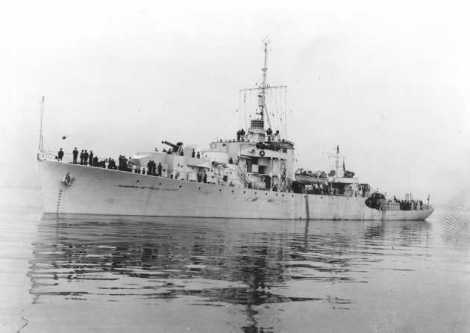 River class frigate HMCS Levis